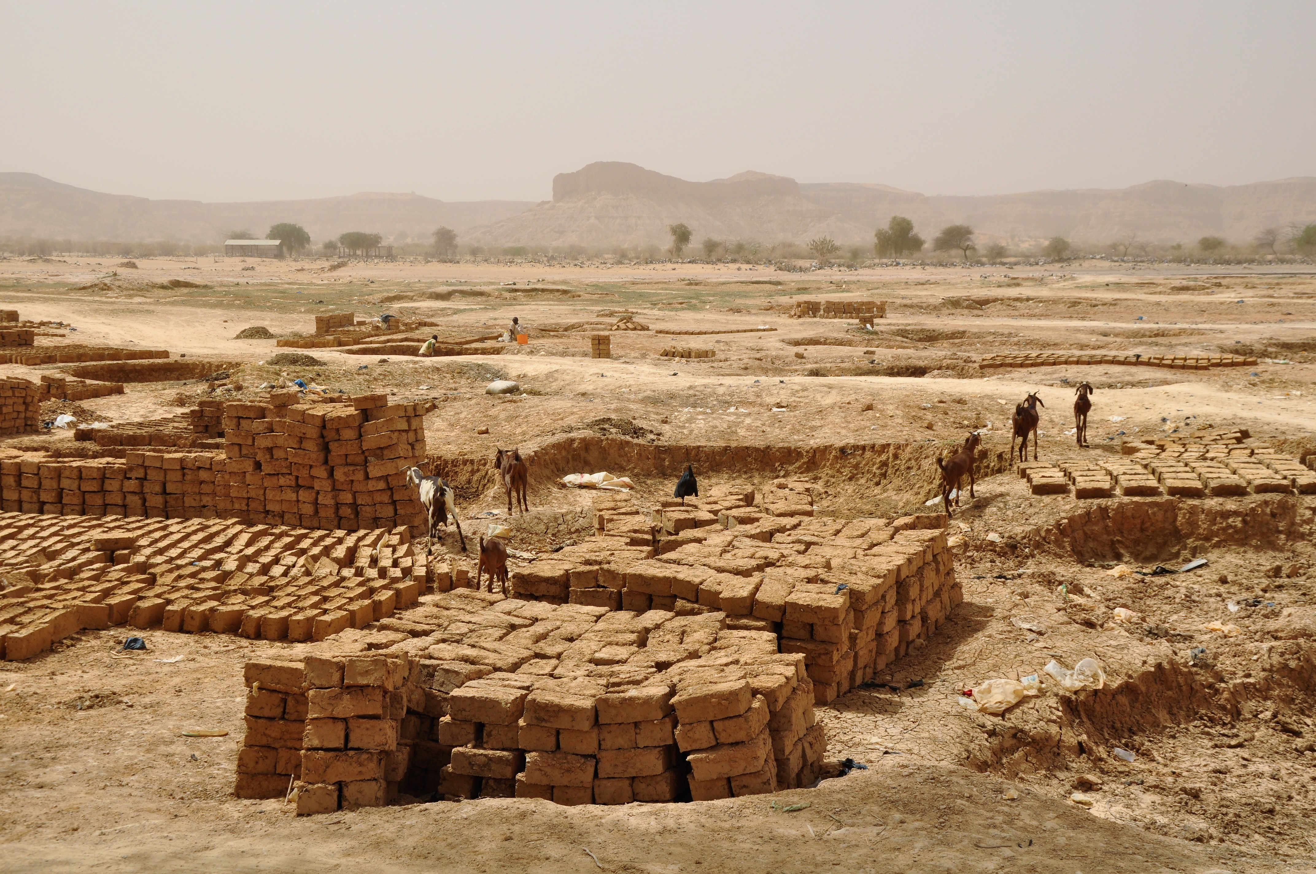 Bricks in the Dallol Bosso, a major seasonal river valley in southwest Niger. After the rainy season several muddy pools remain; this mud is used for making traditional bricks, as here on the outskirts of Filingué (Filingué Department, Tillabéri Region, Niger). In the distance the Filingué escarpment.